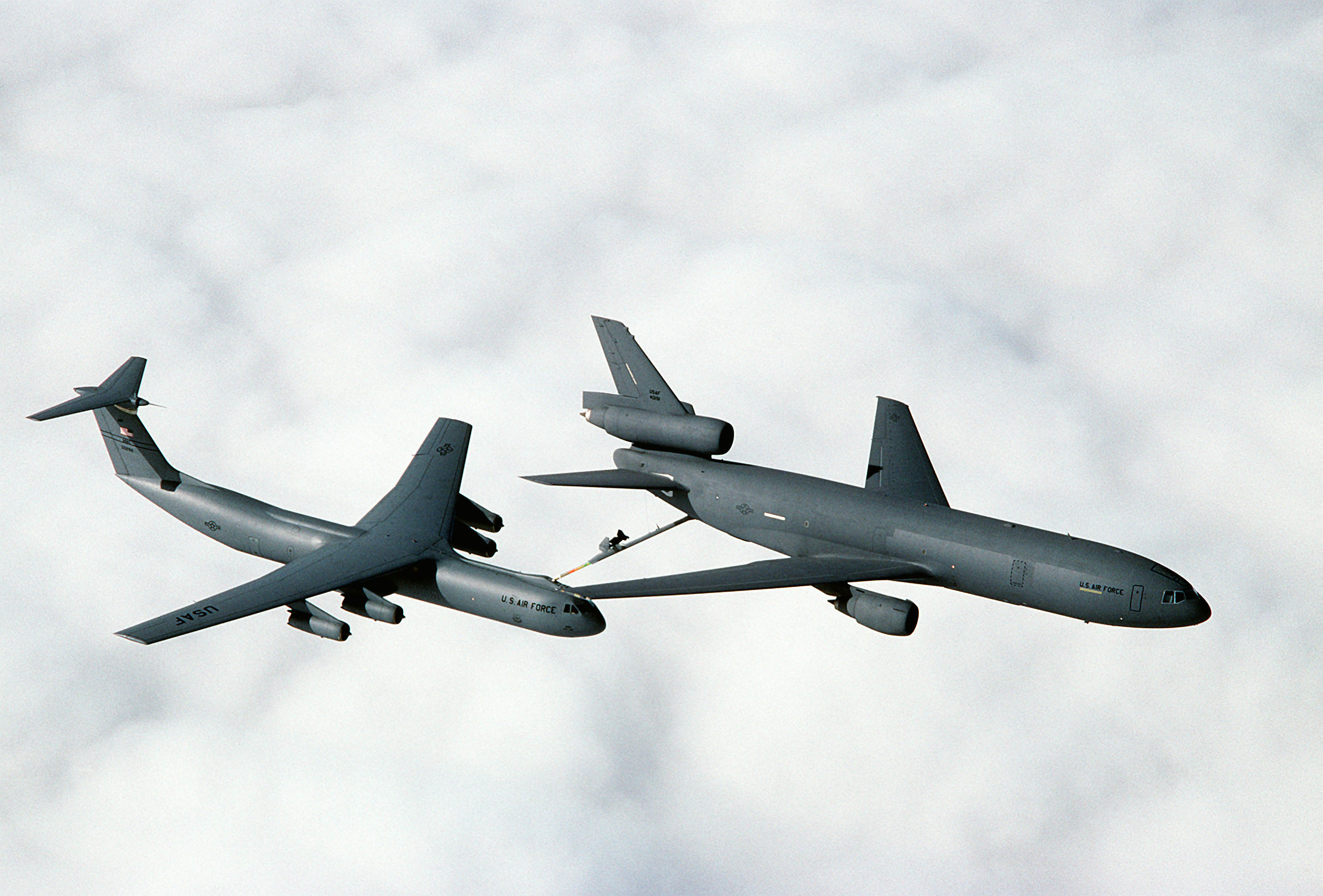 A 79th Air Refueling Squadron (79th AREFS) KC-10A Extender aircraft refuels a 7th Airlift Squadron (7th AS) C-141B Starlifter aircraft as the two planes fly above the clouds over northern California. The KC-10 Extender is an air-to-air tanker aircraft in service with the United States Air Force derived from the civilian DC-10-30 airliner. The KC-10 was the second consecutive McDonnell Douglas transport aircraft to be selected by the US Air Force following the C-9 Nightingale. Conversion to the KC-10 involved only minor modifications to the DC-10-30, the largest of which was the addition of a boom control station in the rear of the fuselage and extra fuel tanks under the main deck. First deliveries to the Strategic Air Command (then in control of AAR assets) commenced in 1981. The USAF Strategic Air Command had KC-10 Extenders in service from 1981 through 1991, when they were re-assigned to the Air Mobility Command.